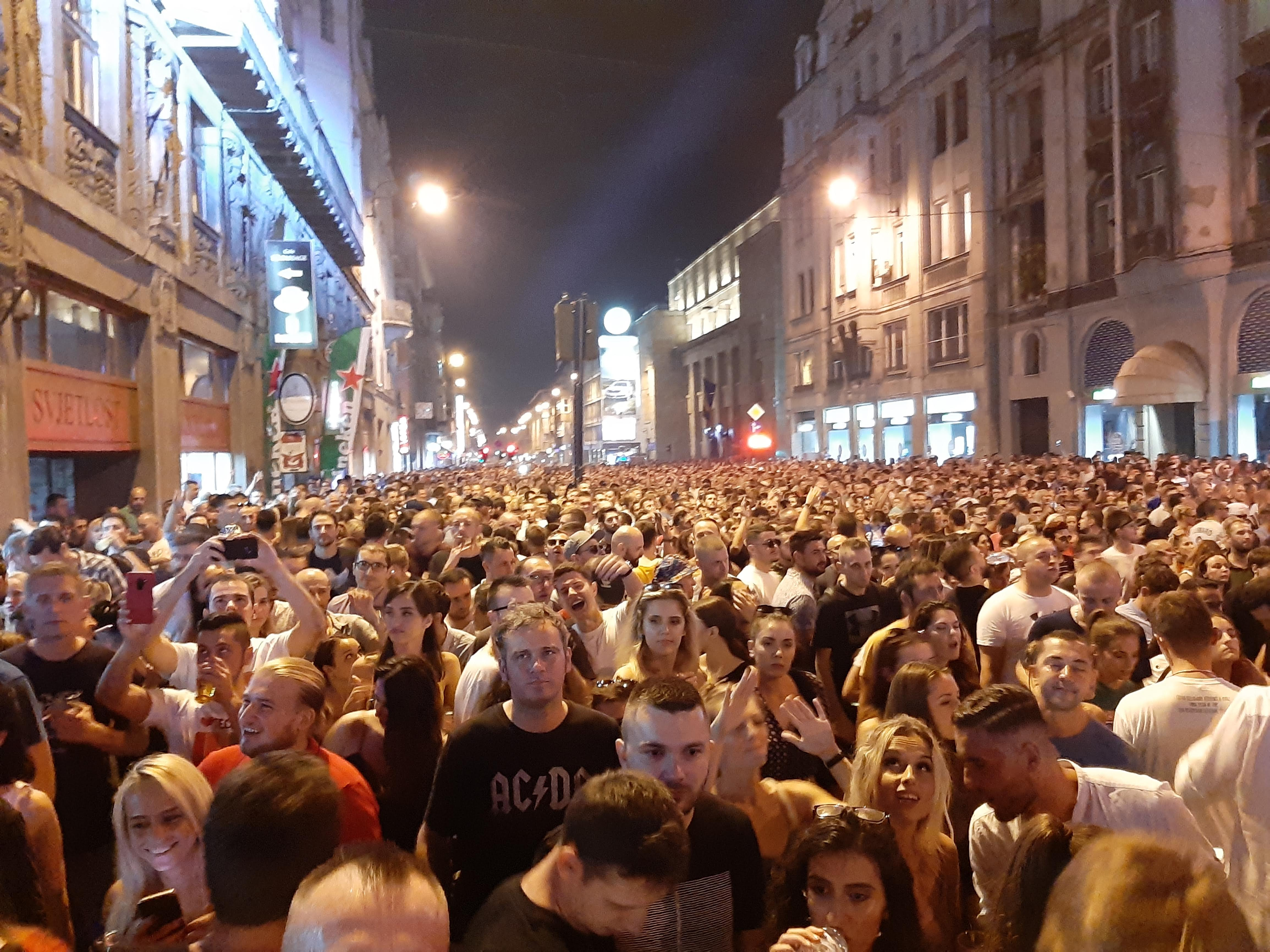 DJ Solomun performing live in Sarajevo